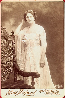 Photograph of Mariska Aldrich